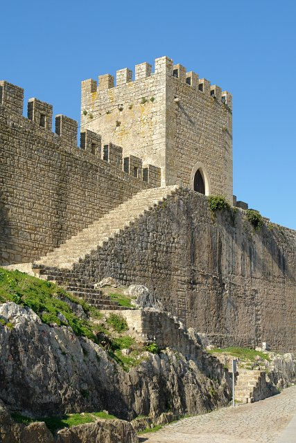 Photography by Osvaldo Gago